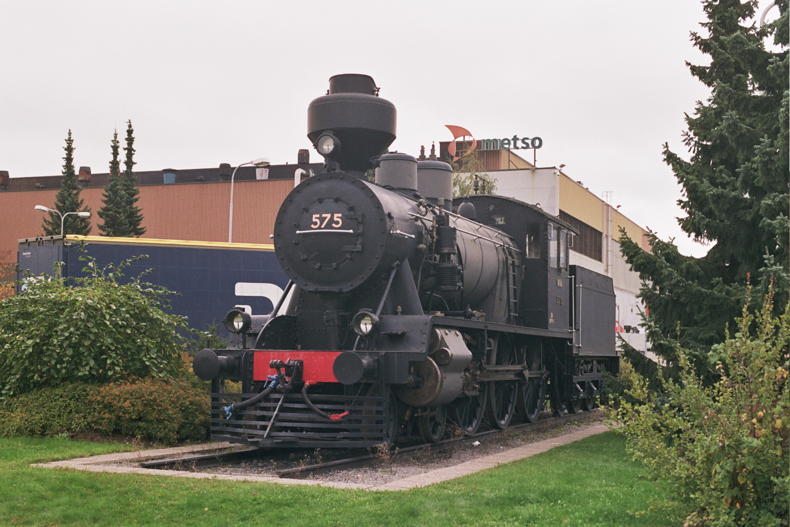 A Finnish steam locomotive, Hv1 class (Finnish State Railways), number 575, preserved in front of Metso Lokomo Steels in Hatanpää, Tampere, Finland. This was the first locomotive manufactured by Lokomo (company founded circa 1915) and entered service in 1920.